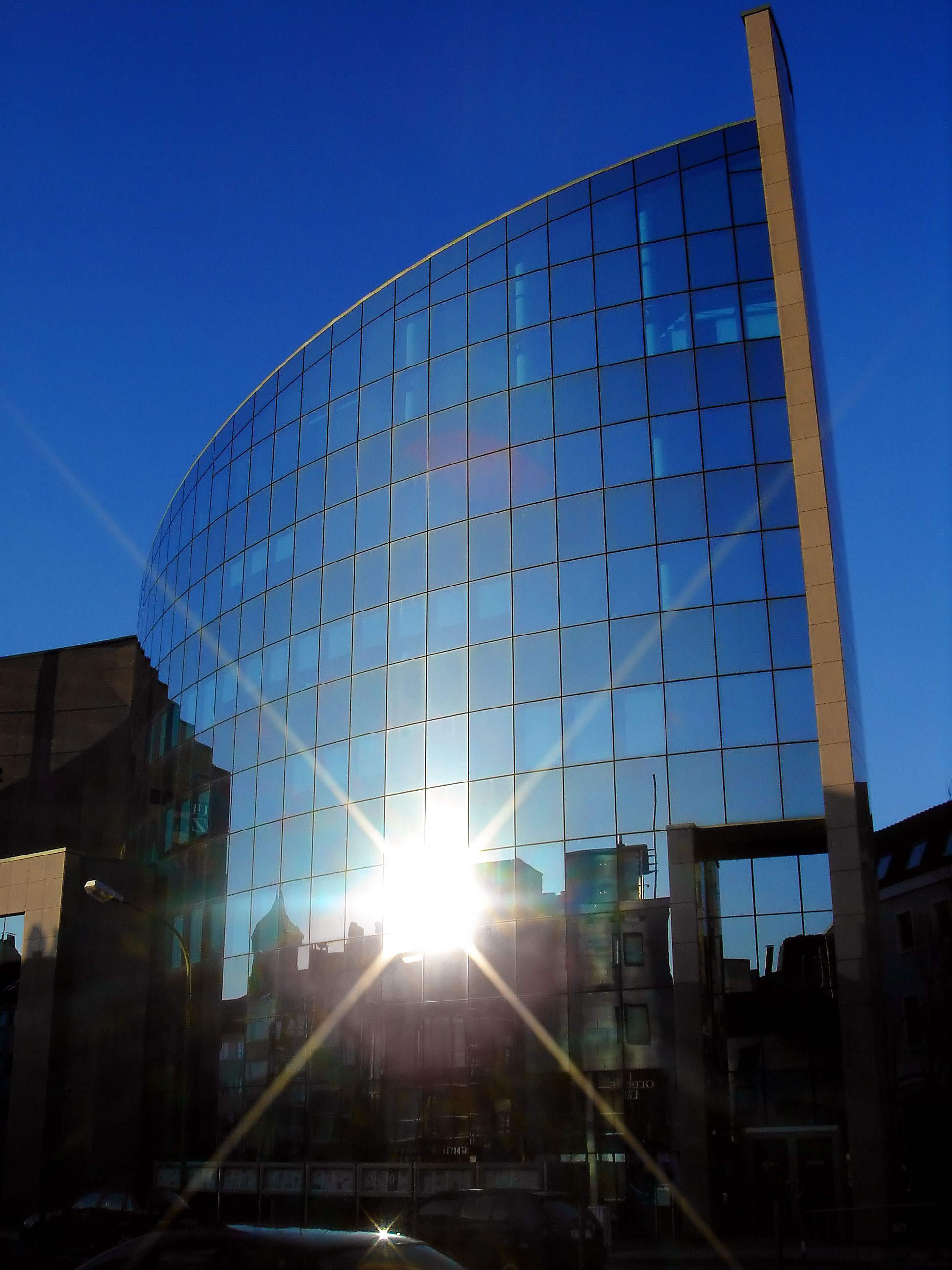 redactional building of the newspaper Neue Osnabrücker Zeitung in Osnabrück